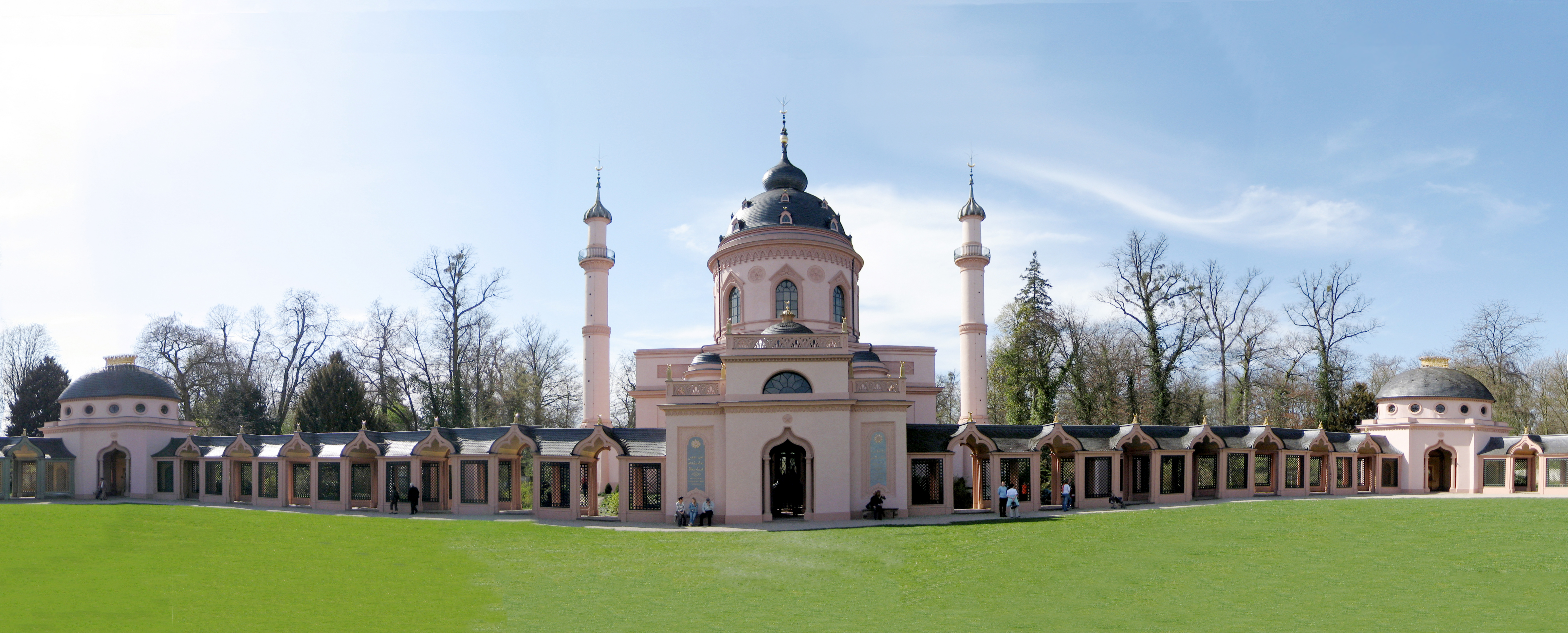 Mosque Castle Garden of Schwetzingen